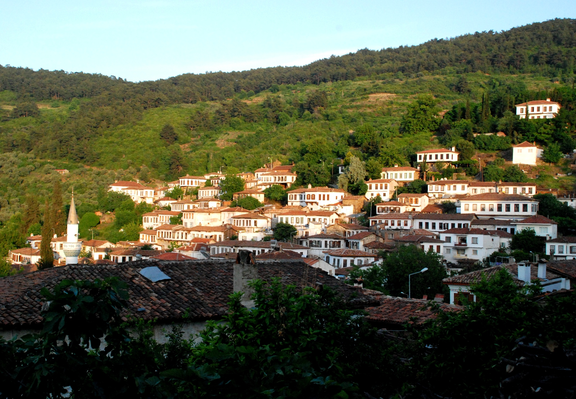 Şirince